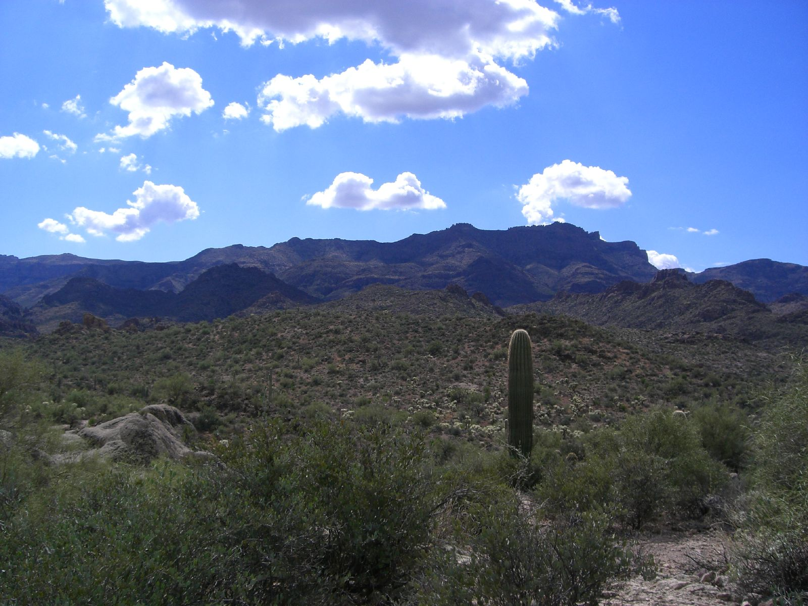 Superstition Mountain from far away